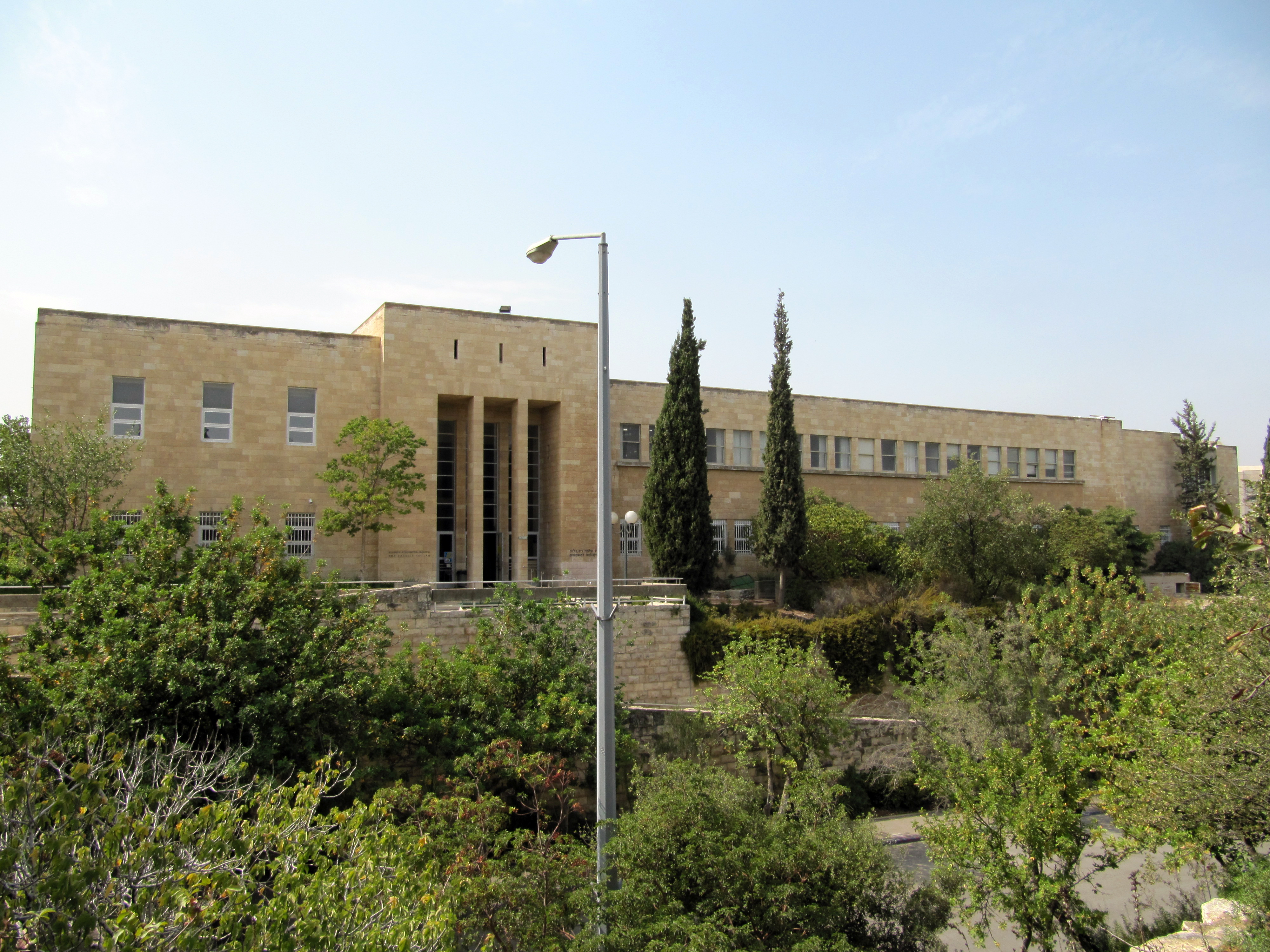 Hebrew University campus on Mount Scopus, Jerusalem